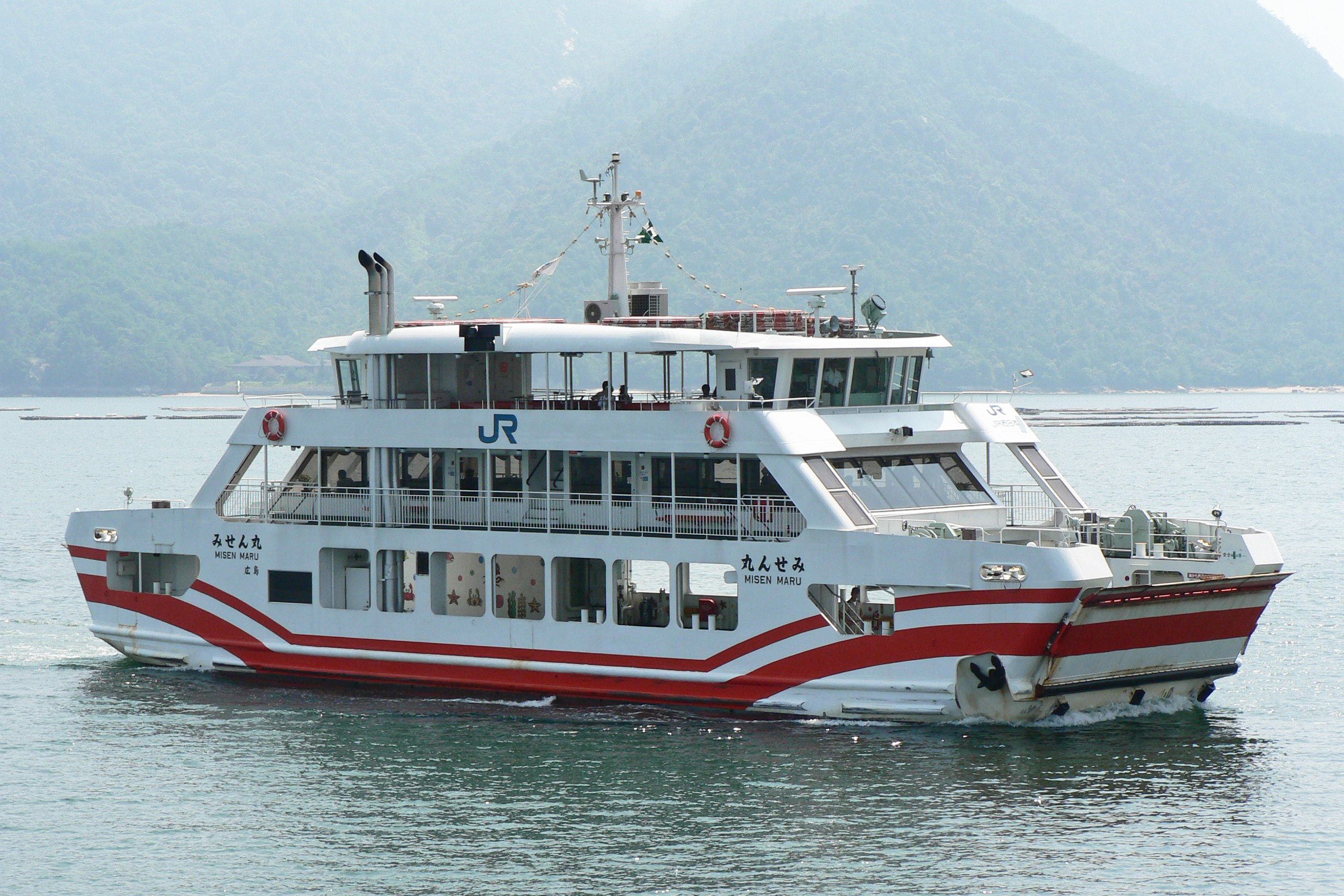 JRW Miyajima Ferry "Misenmaru"